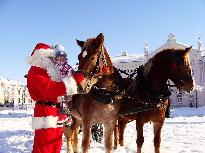 Santa Claus in Sanok, Poland